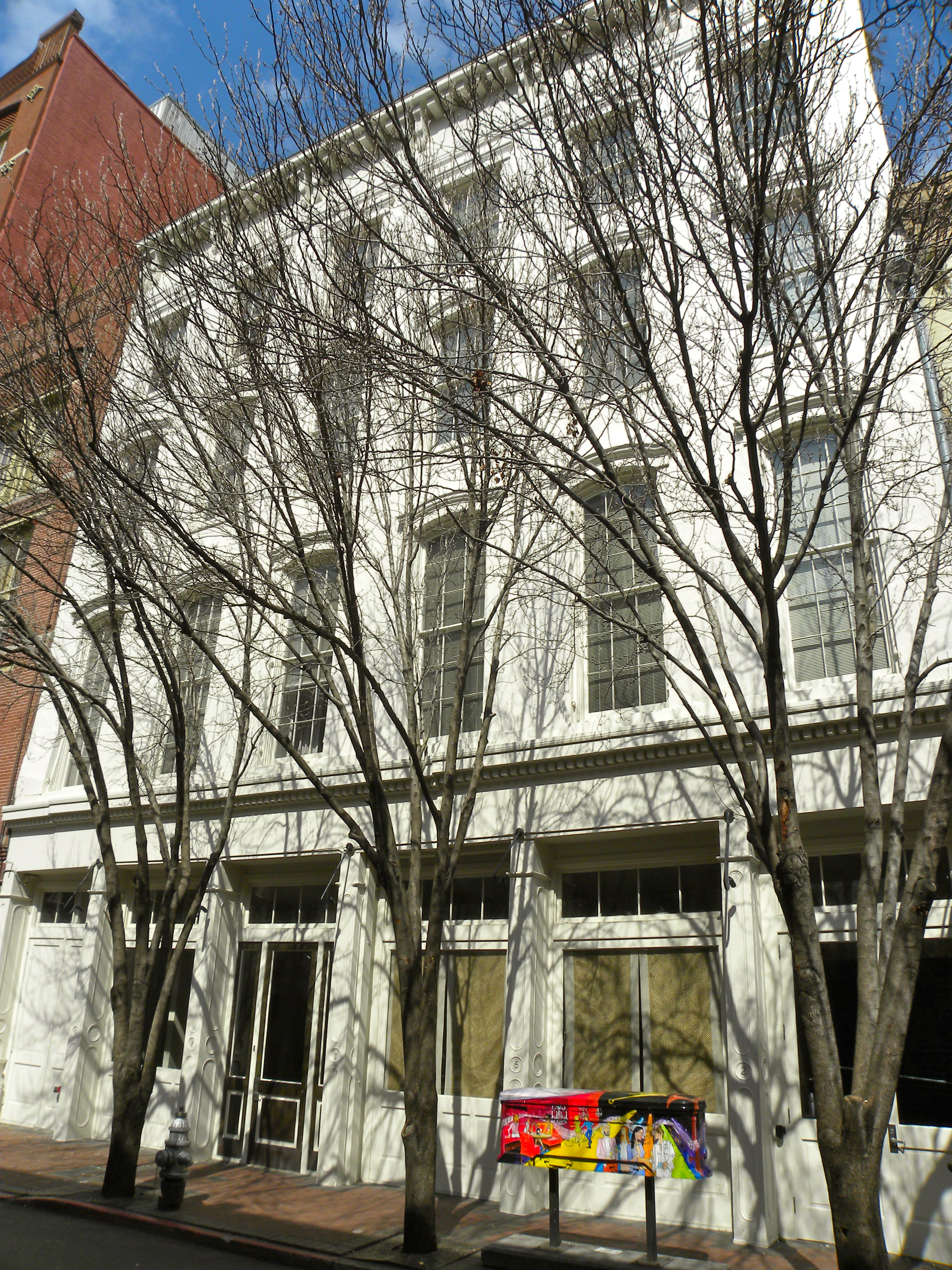 We have arrived in NOLA! This is our Hotel - Loft 523. Highly recommended and in the centrally located Warehouse District. My TripAdvisor review